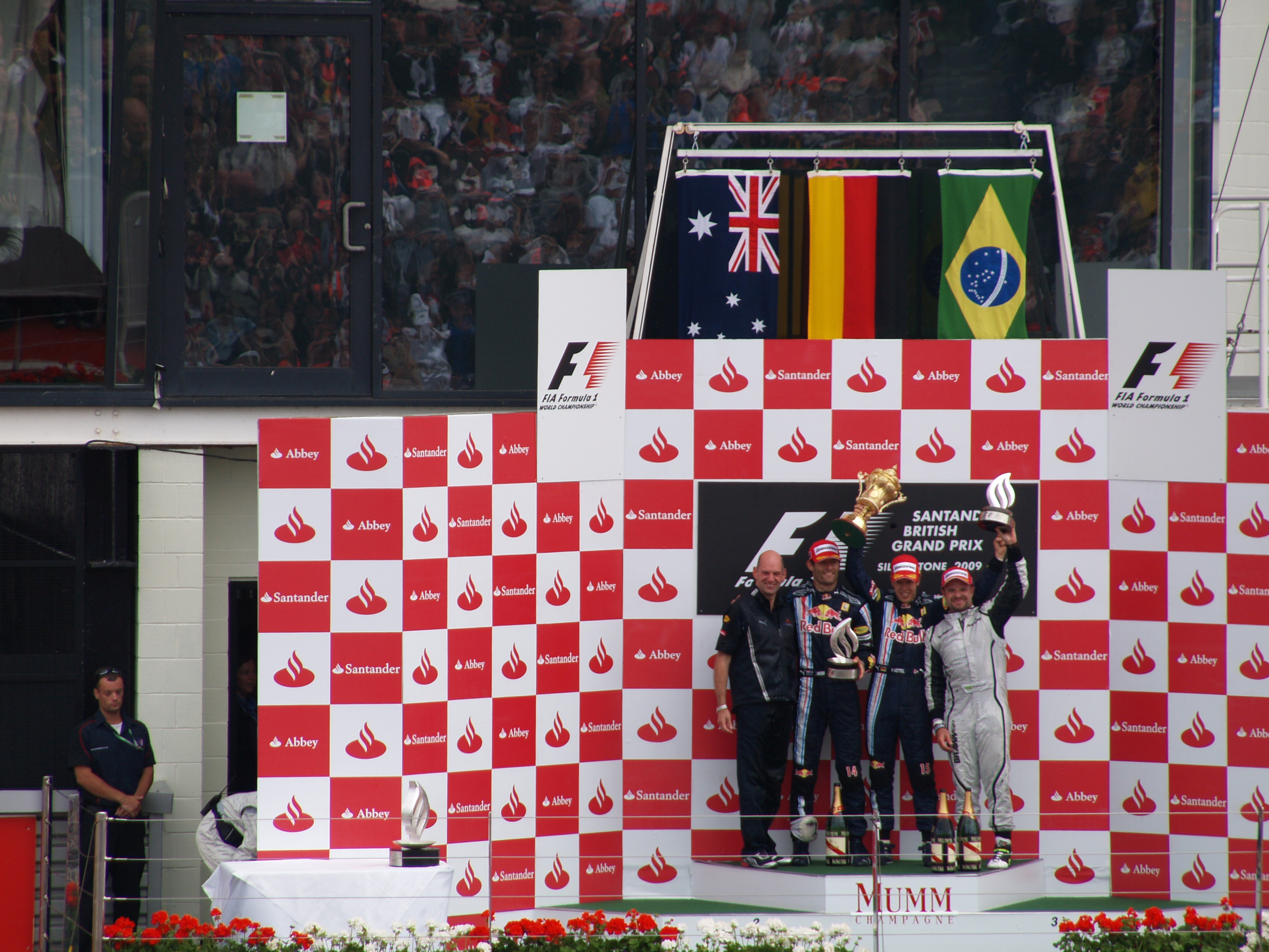 The podium of the 2009 British Grand Prix, from left to right: Adrian Newey, Mark Webber, Sebastian Vettel and Rubens Barrichello.